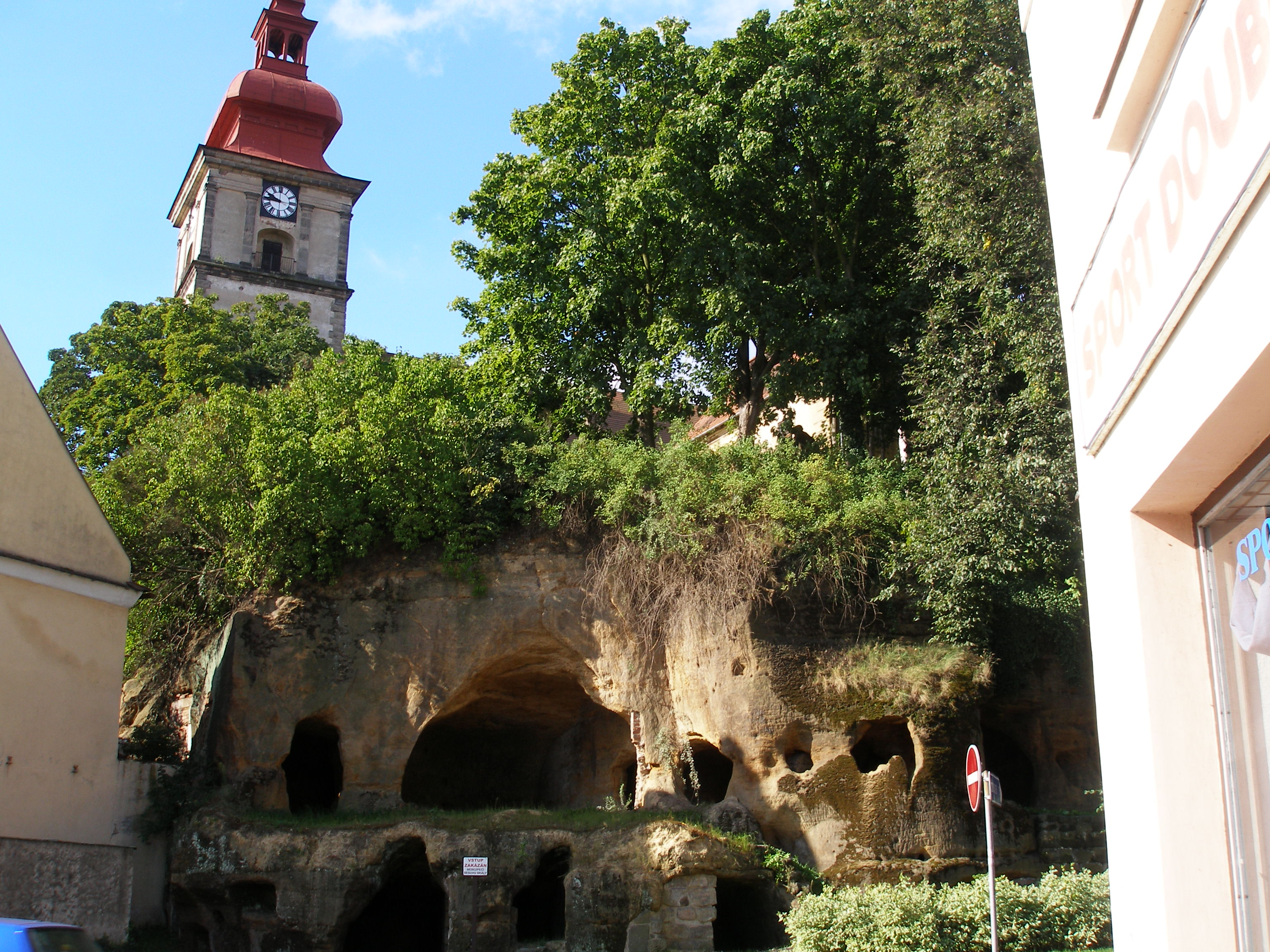 Brewery cellars Mimoň - Czechia